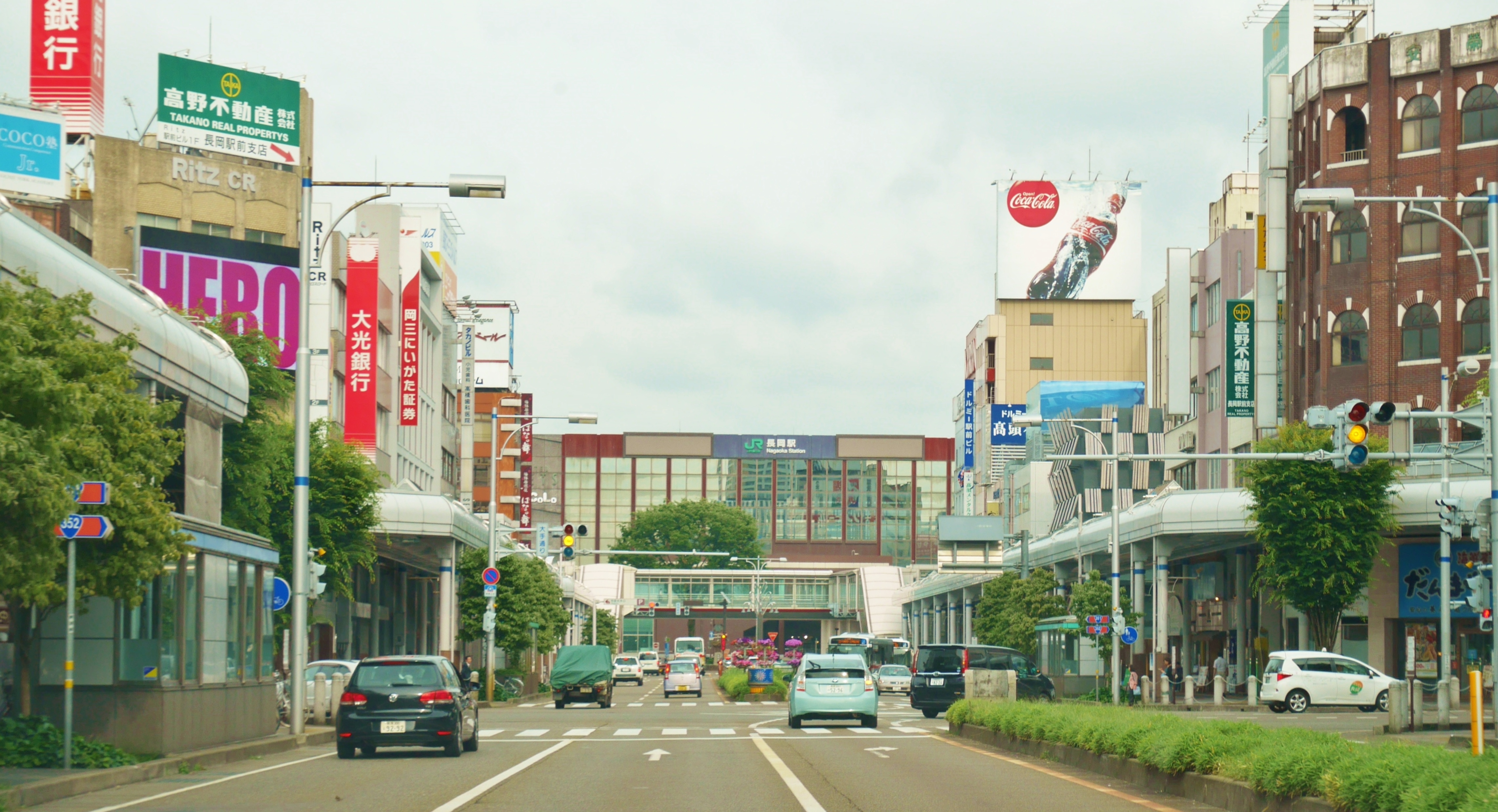 Nagaoka-city,Niigata,Japan